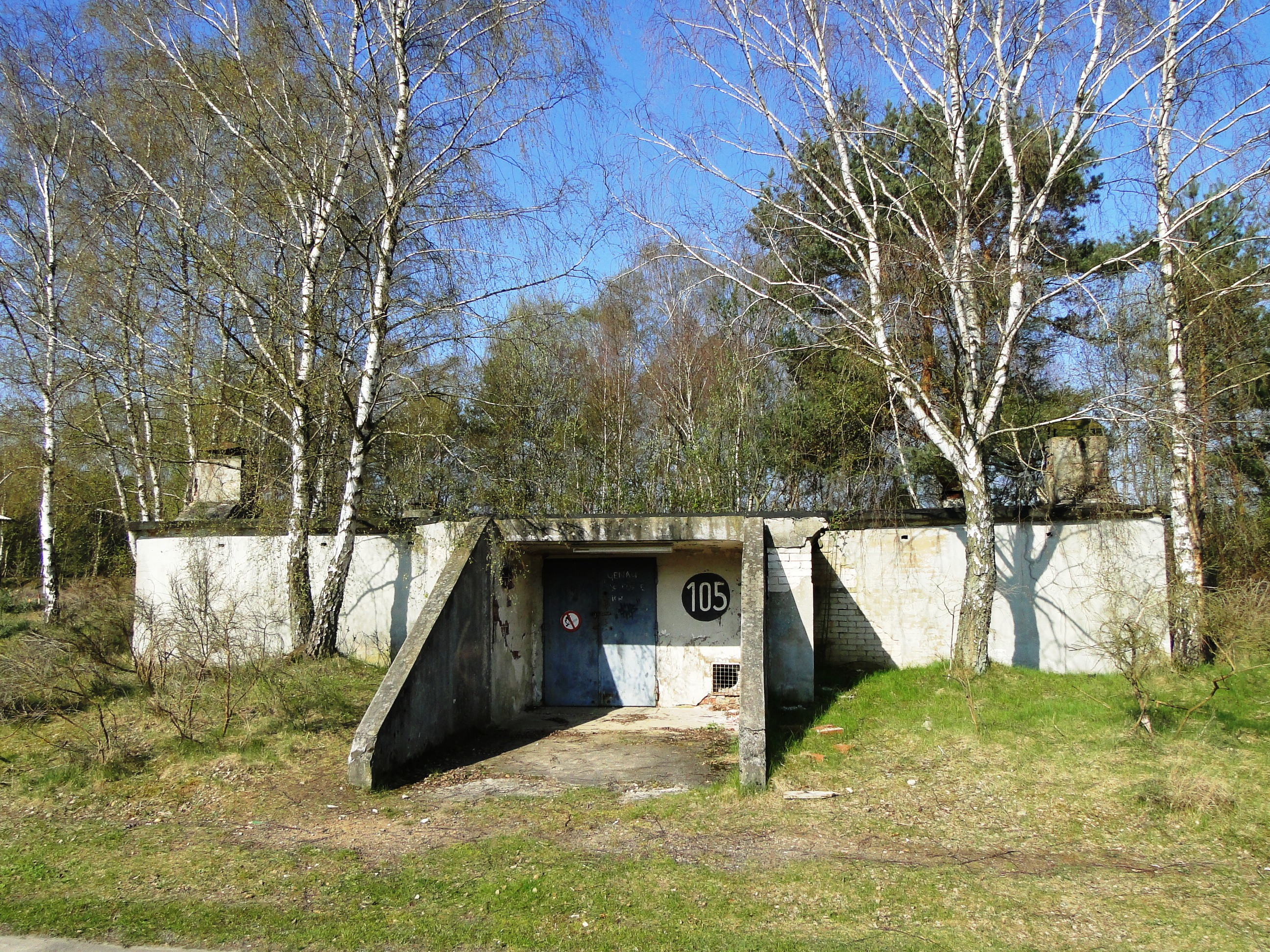 Last remaining ammunitions bunker at Camp Reinsehlen, now used for storage by the hotel